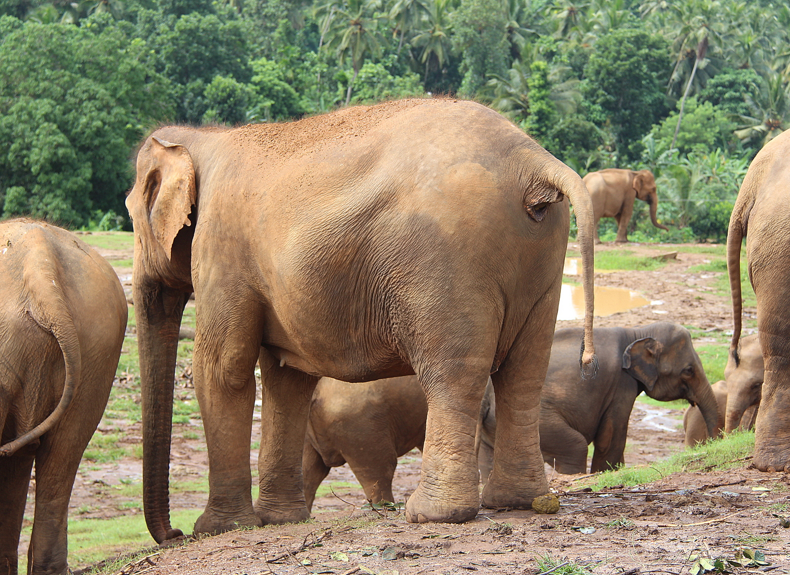 Defecated elephant in Sri Lanka